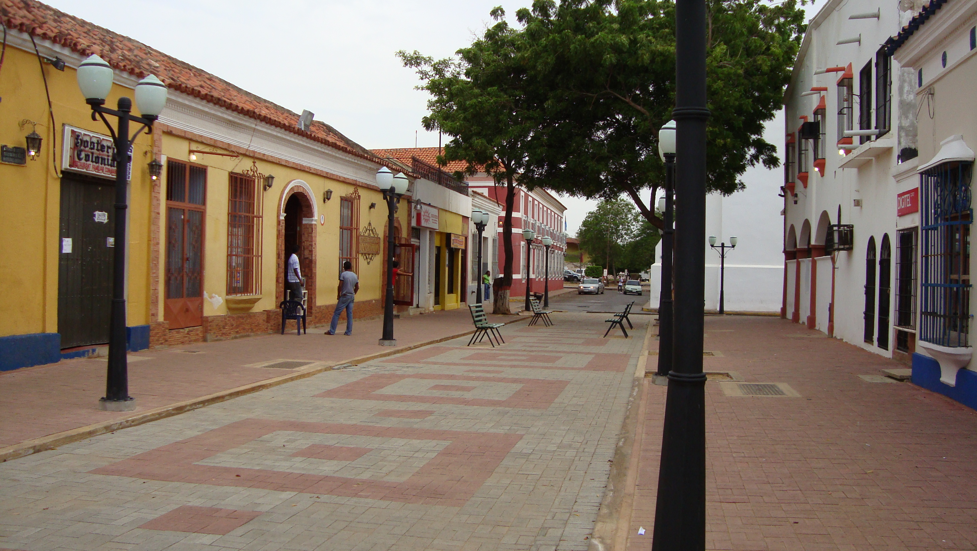 Coro, Falcón State.